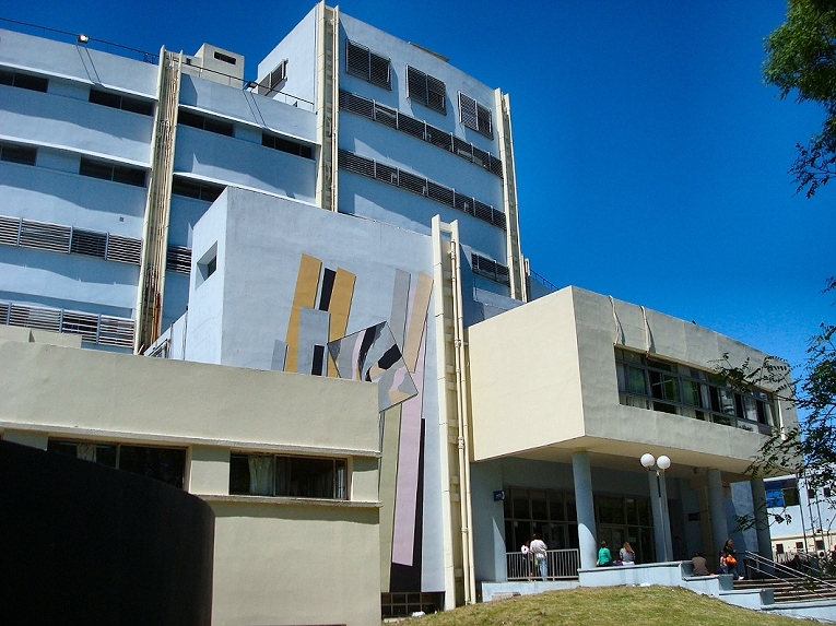 Hospital Pereira Rossell, new wing (Paediatric), Parque Batlle, Montevideo, Uruguay.